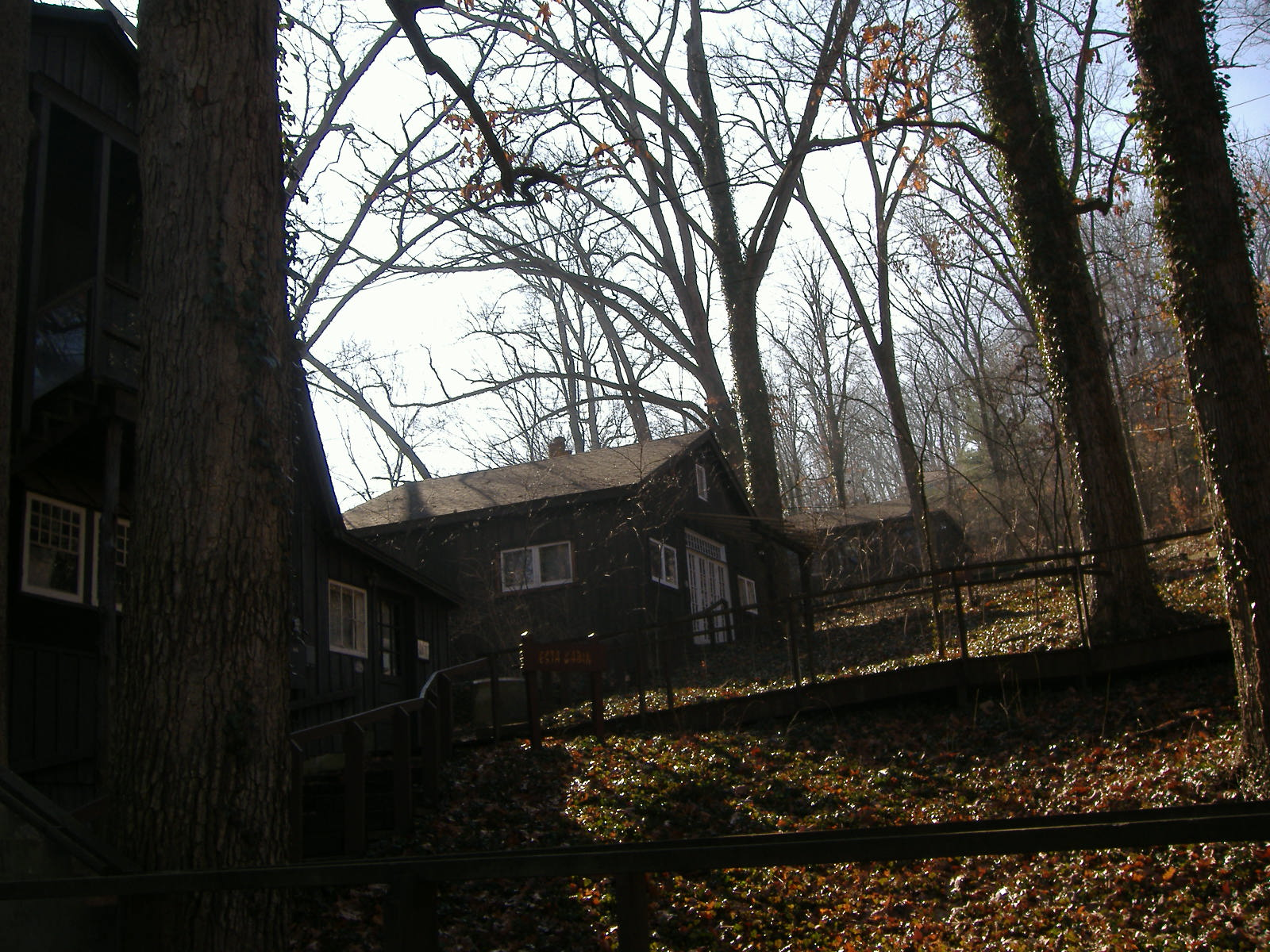 The Little Loomhouse cabins of Louisville, Kentucky.